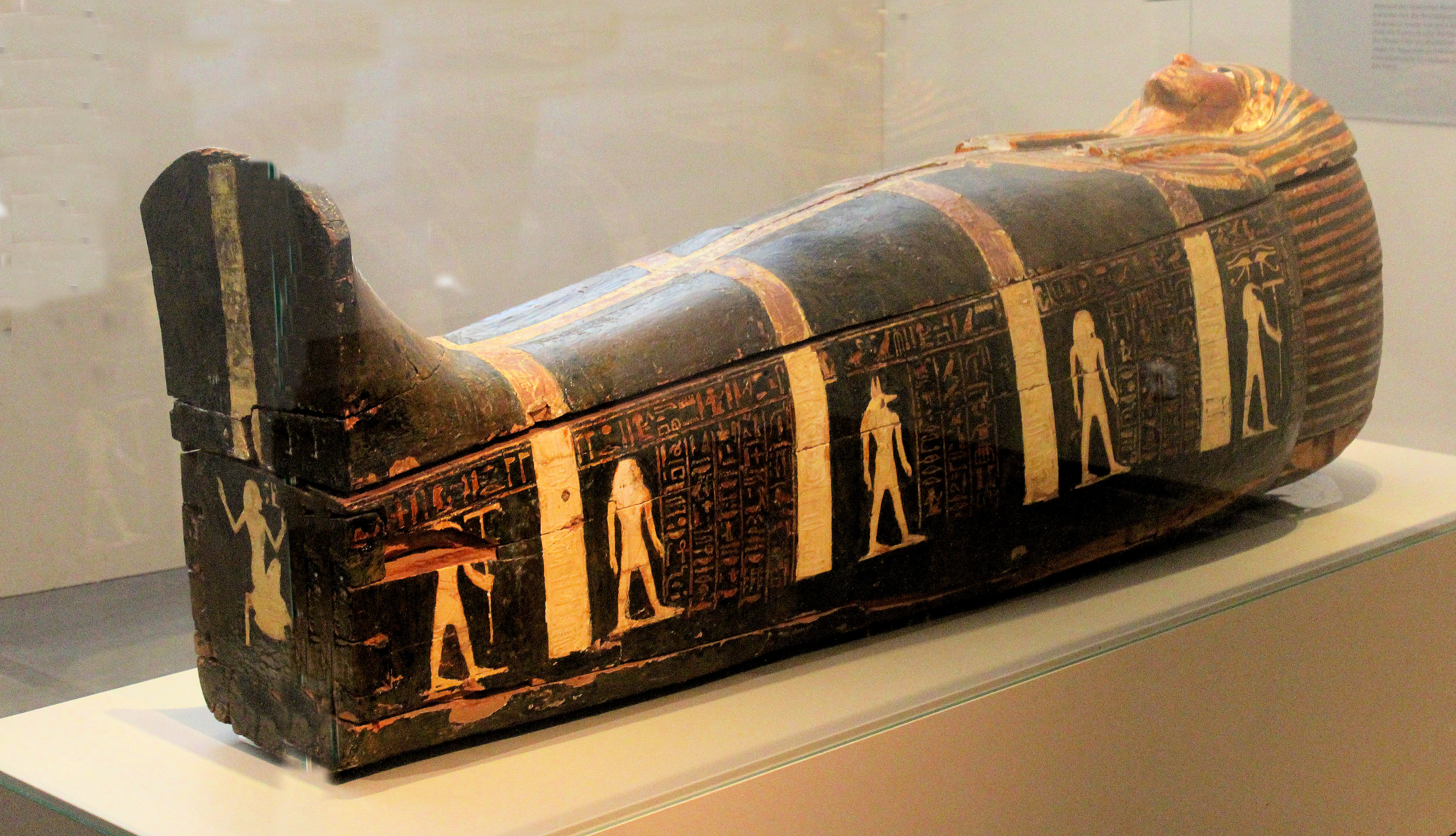 Hildesheim, Roemer- and Pelizaeus-Museum, coffin of the Amenemope